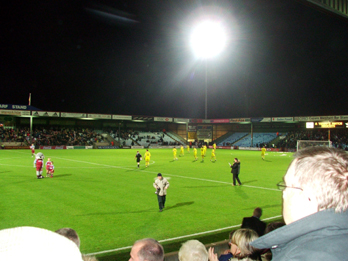 Photo taken by Mightyiron